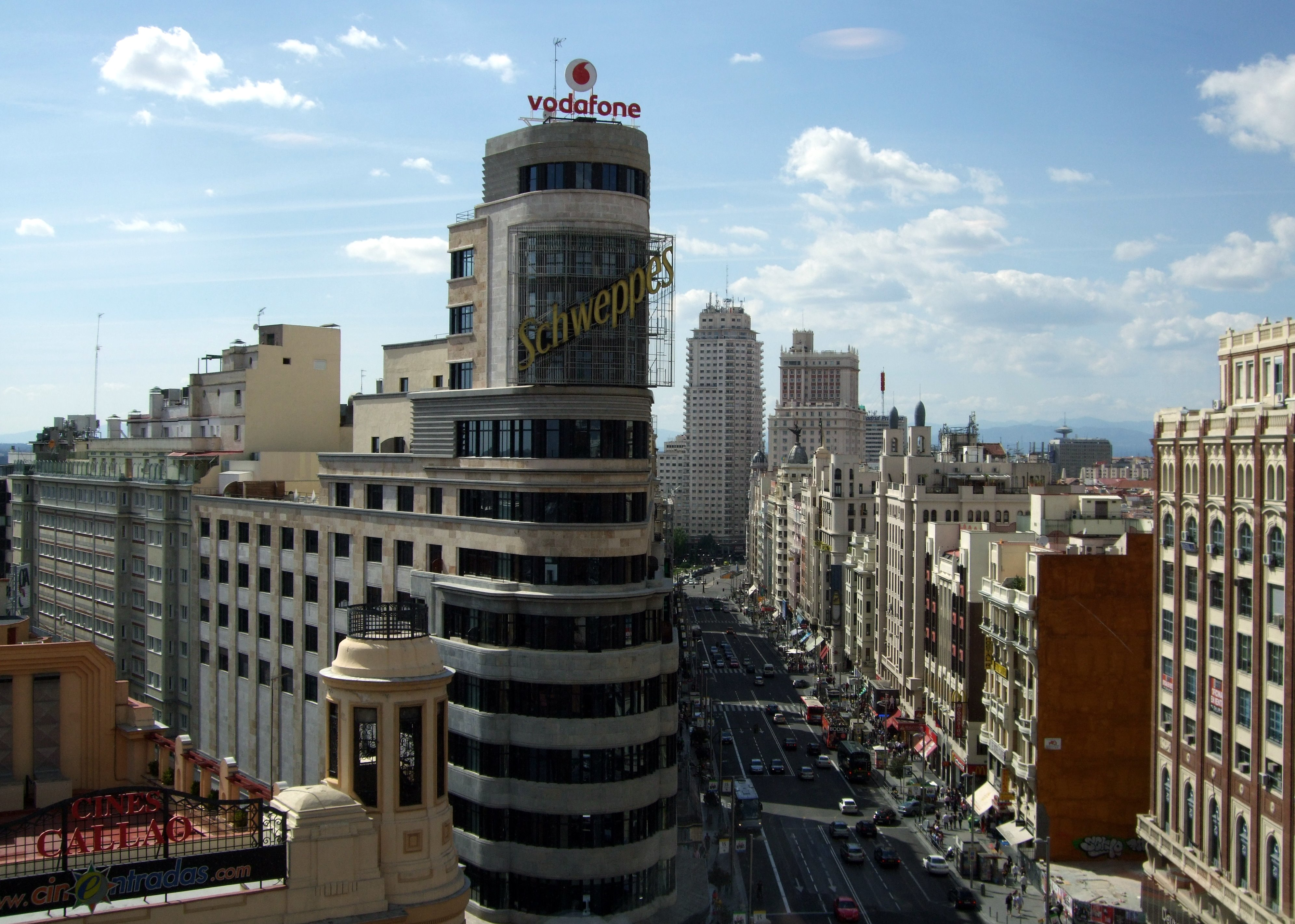 Gran Vía (a downtown avenue) in Madrid (Spain). Image taken from a building at Plaza del Callao (square). At the centre, Edificio Carrión (building).